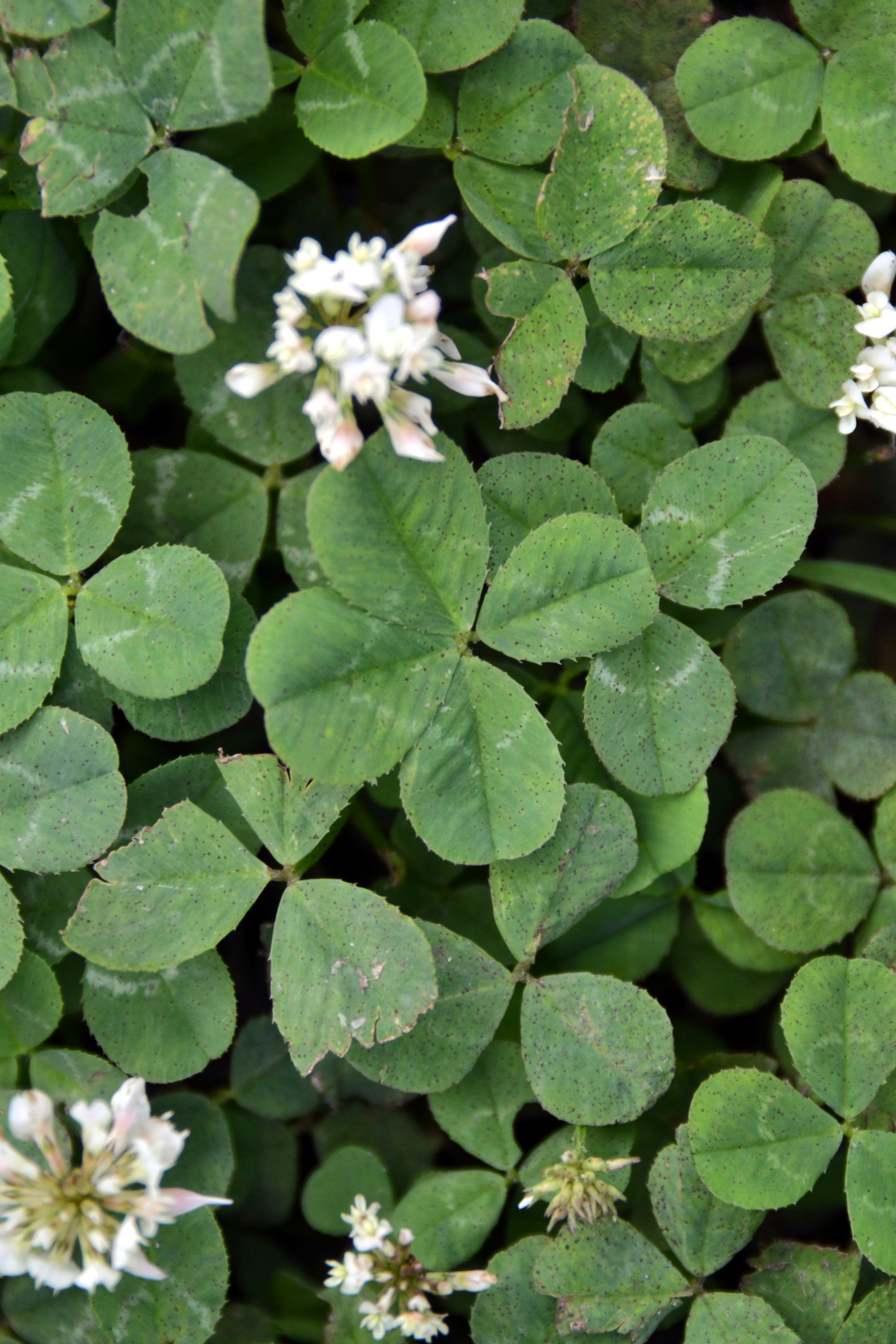 I have always been able to spot four leaf clovers without really looking for them - I think it is because they break-up the pattern set up by three leaf clovers and the stand out. I have bunches of them taped in side of my dictionary at work.